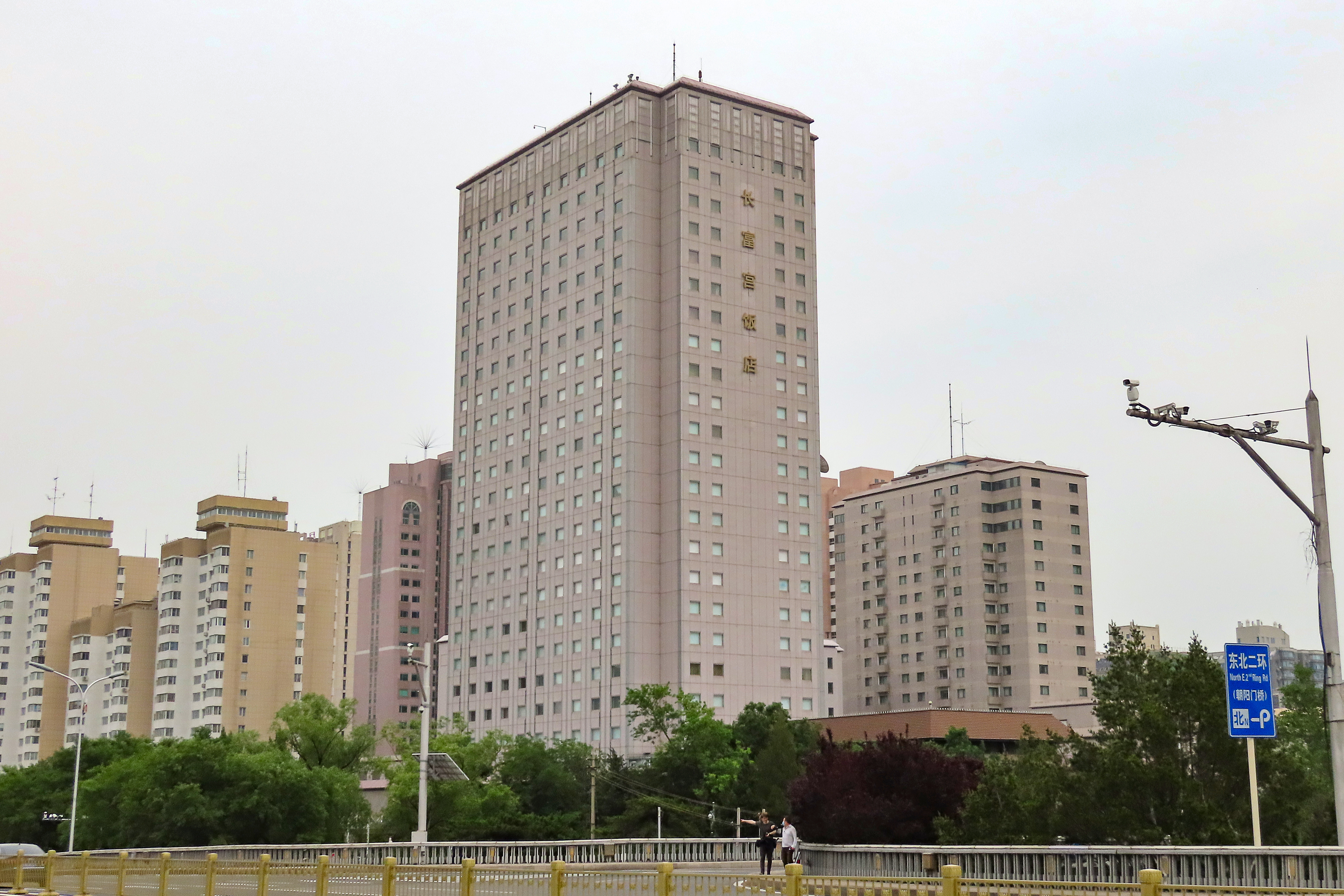 A Japanesque hotel...